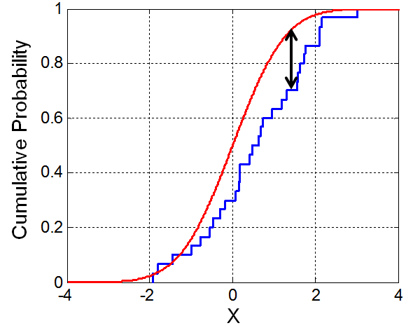 Graph depicting an example of the Kolmogorov-Smirnov test. Matlab code shown below.